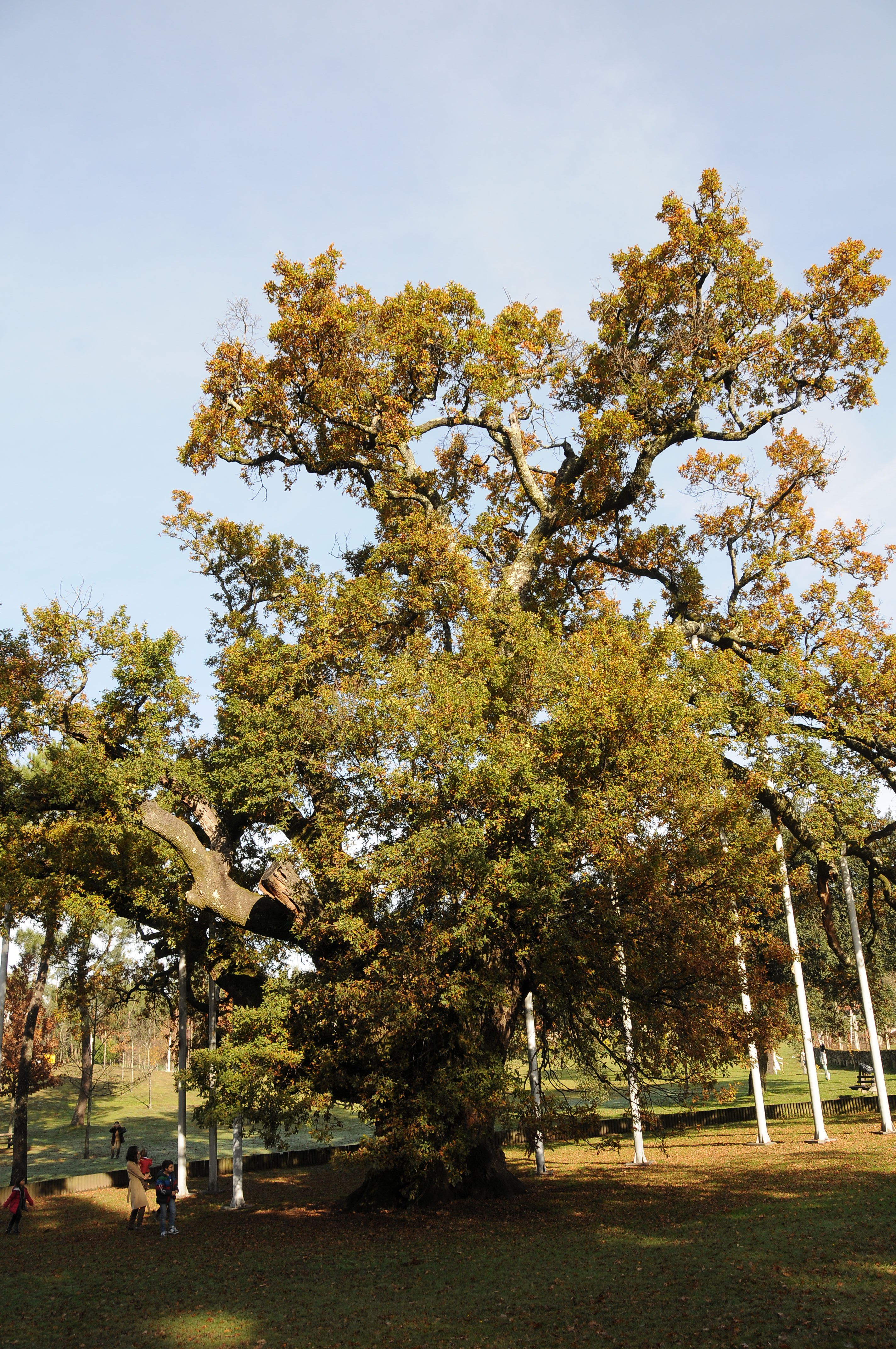 Quercus robur in Calvos, Povoa de Lanhoso, Portugal.